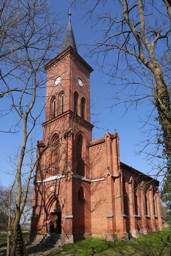 Church in Boeck, district Müritz, Mecklenburg-Vorpommern, Germany